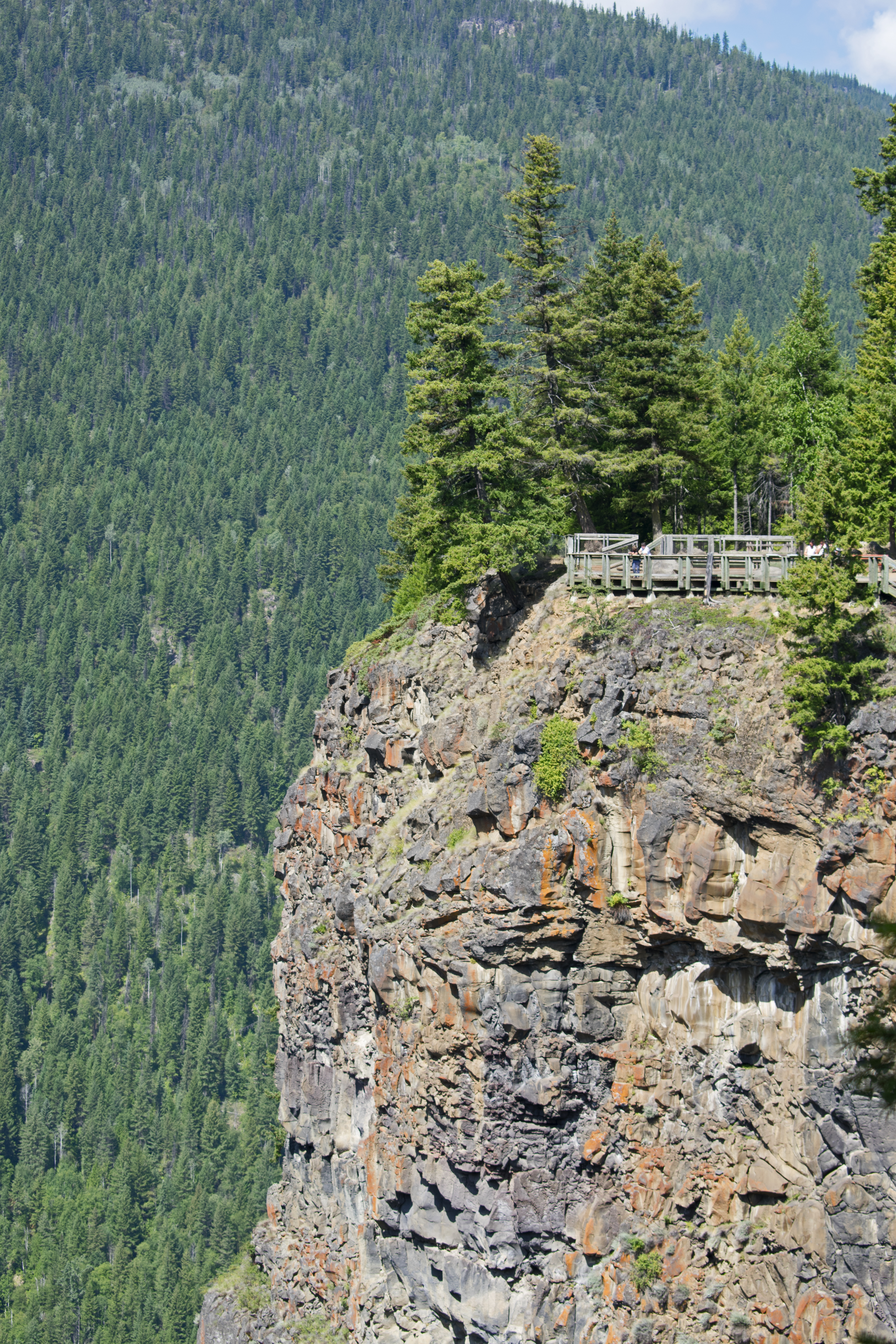 Rocks near Spahats Creek Falls. The Spahats Creek is left of the rock; the Clearvater river valley is at the background